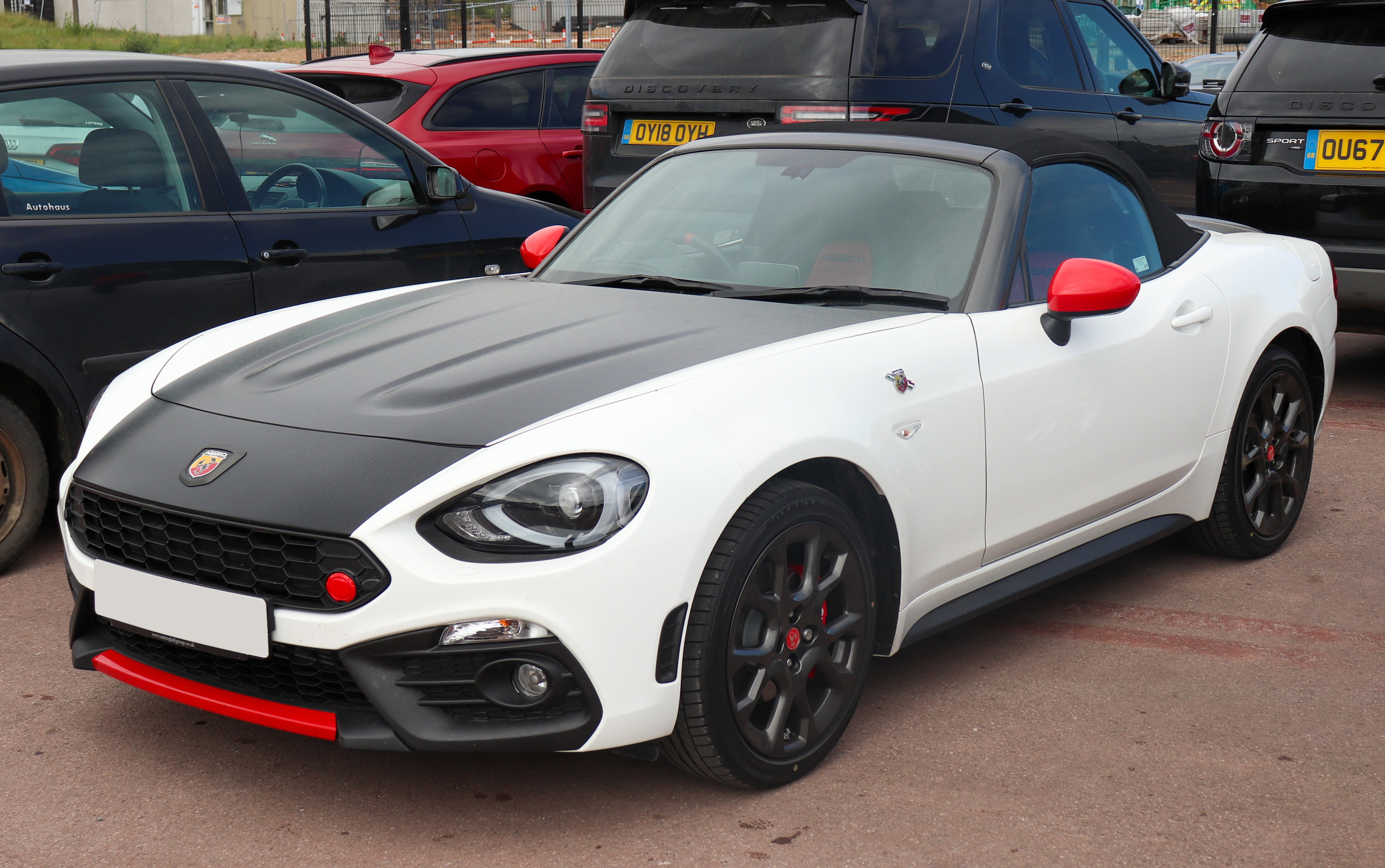 2018 Abarth 124 Spider Multiair 1.4 Taken at the British Motor Museum, Gaydon